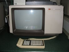 Electrohome Telidon terminal circa 1984. This terminal is typical of the ones used in Transport Canada's TABS service, which provided graphical weather information and other data for pilots. The system's diagnostic start-up screen can just be seen.